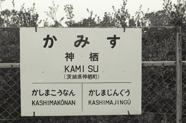 Kashima Seaside Railway Kamisu Station signboard